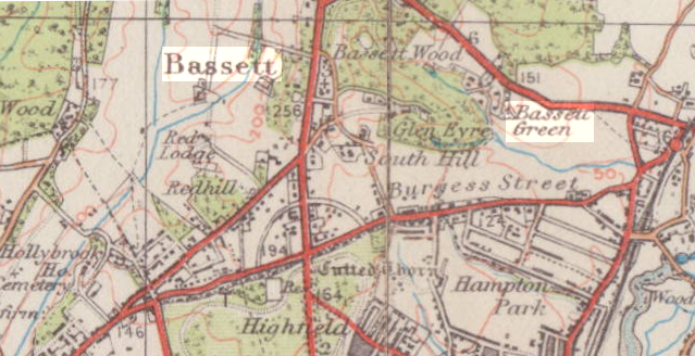 Ordnance Survey map (published 1935 based on 1919 mapping) showing locations of Bassett and Bassett Green. The labels of these two places have been highlighted for effect.